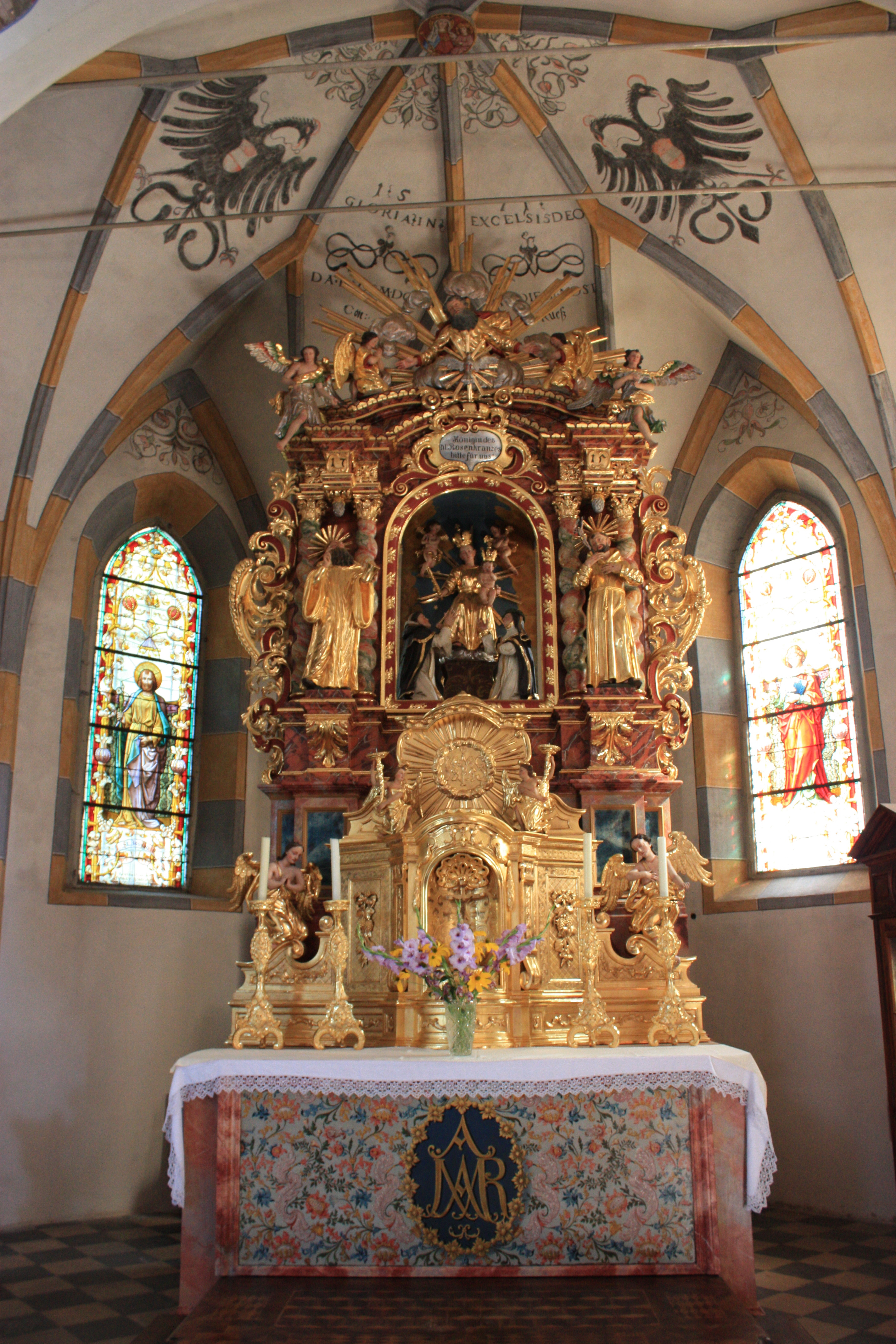 Parish church Saint Paternianus - Side altar Locality: Paternion Community:Paternion